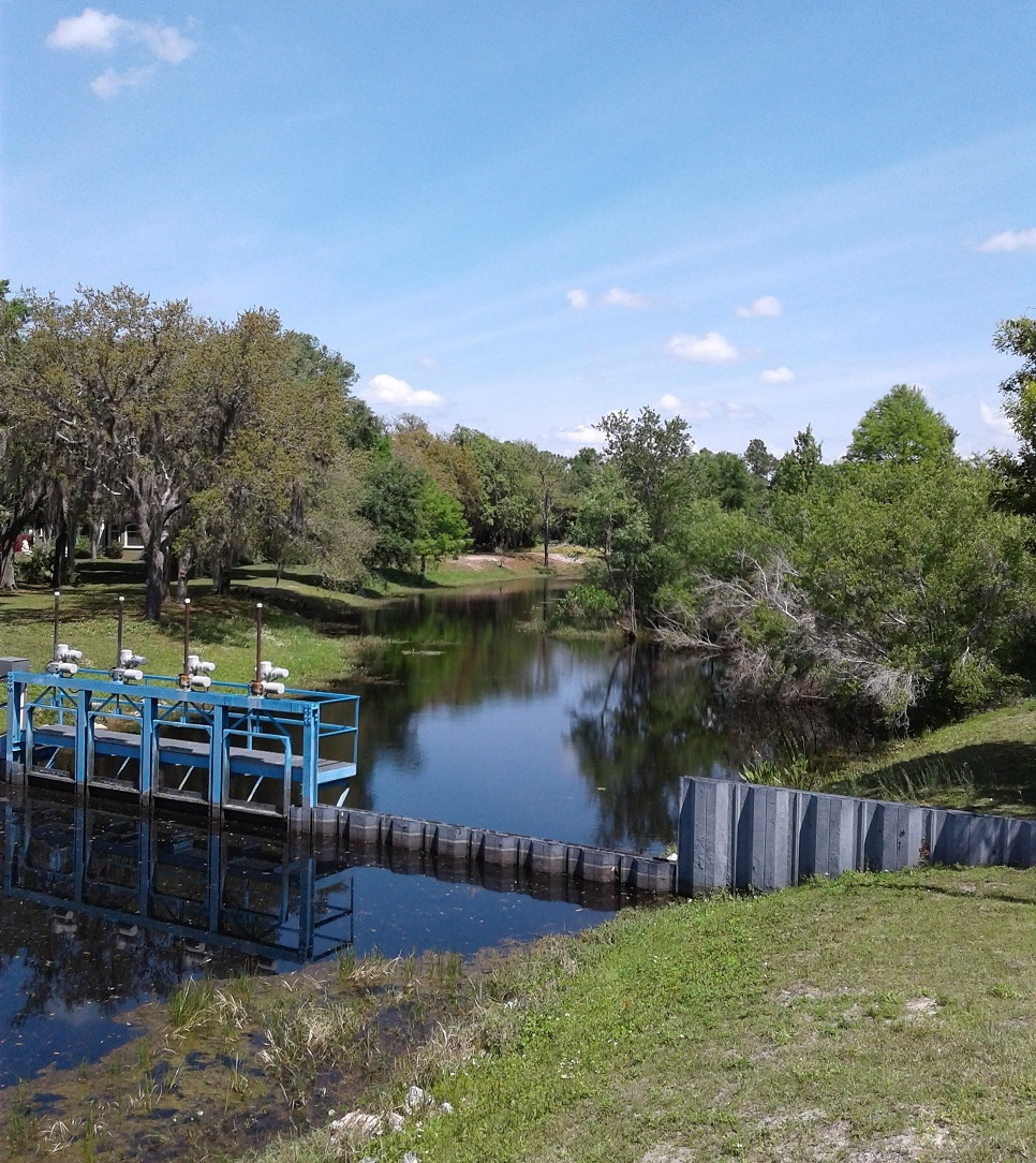 Tsala Lake Water Management Controls, Inverness, Florida (view from bridge on Sandpiper)